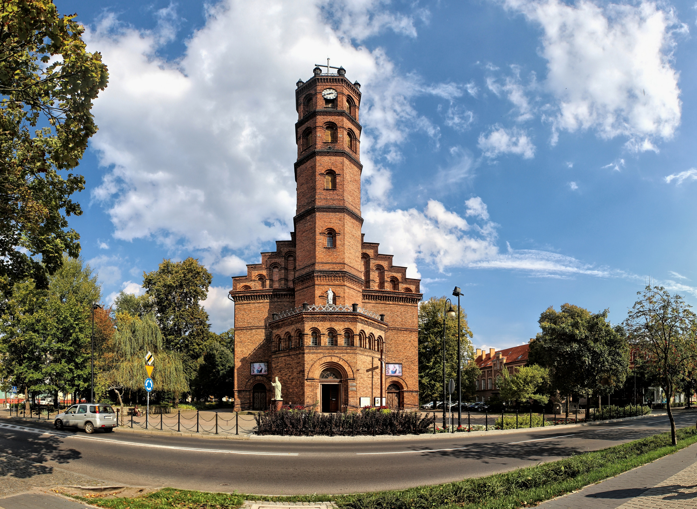 Saint Anthony of Padua church in Nowa Sól